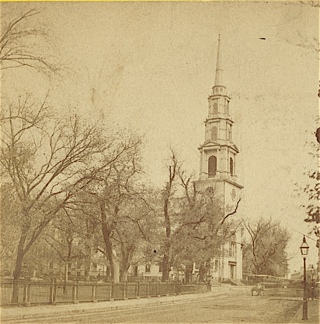 Accession No.: 06_11_000043 Title: Park Street Church Local Subject: Churches Subject: Boston (Mass.) Publisher: Joseph L. Bates Format: Derived from Stereograph BPL Department: Print